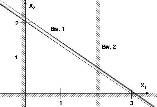 An example of a simple LP-probelm